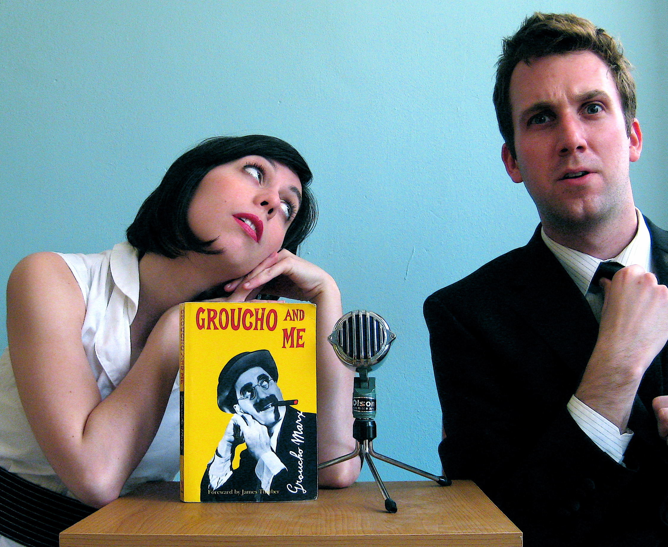 Comedians Laura Grey and Jordan Klepper.